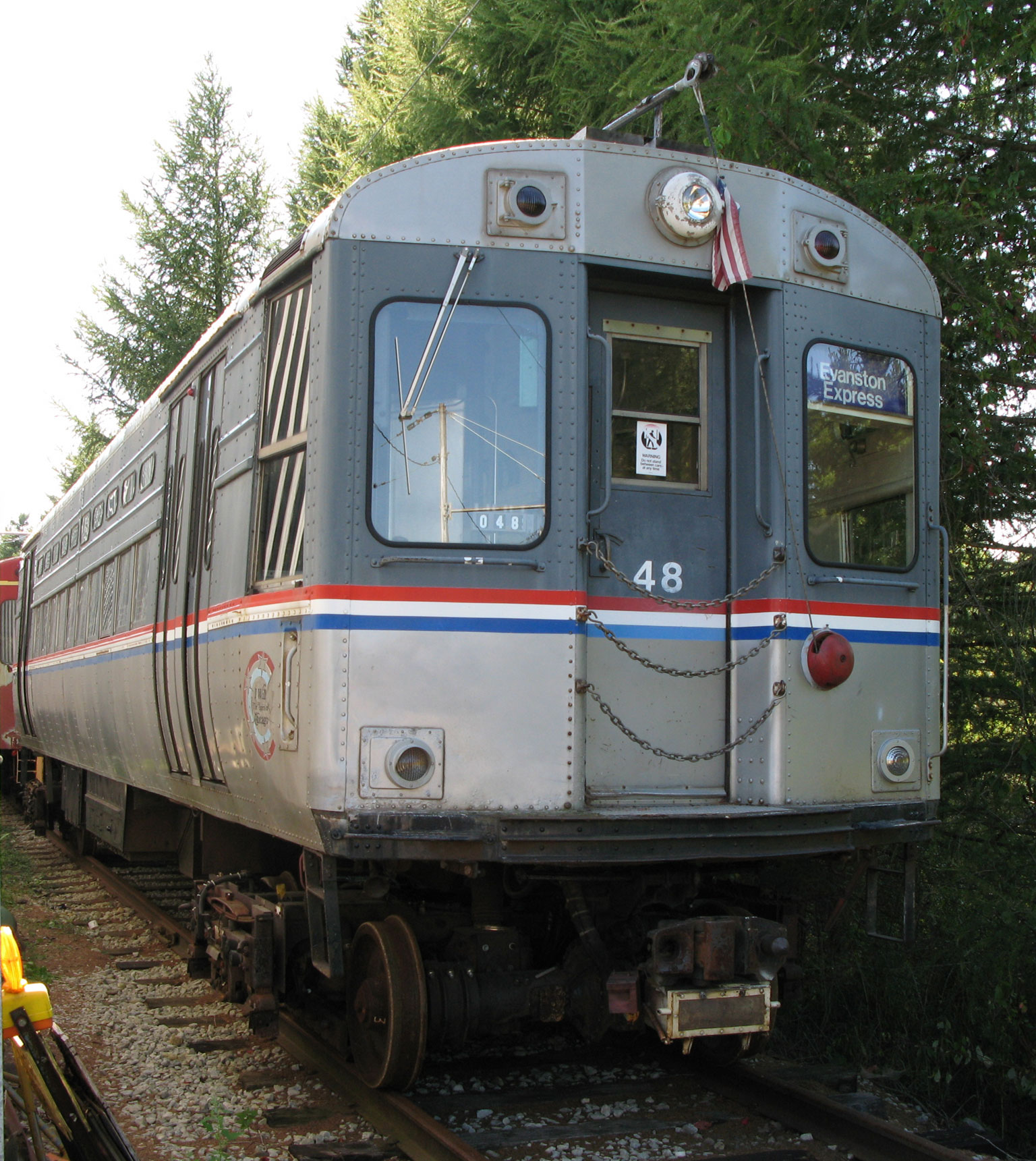 An ex-Chicago metro car from the Halton County Radial Railway museum.